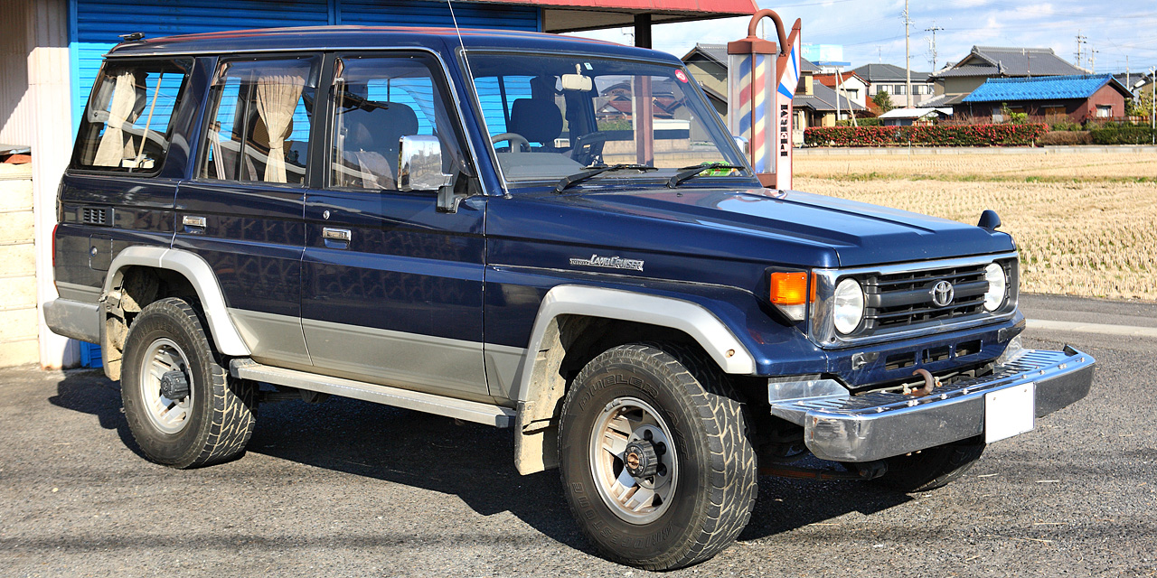 Toyota Land Cruiser 70 Semi-long 4.2 ZX ( HZJ77HV )